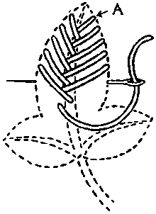 Open fishbone stitch, from Samplers and Stitches, a handbook of the embroiderer's art by Mrs Archibald Christie, London 1920.